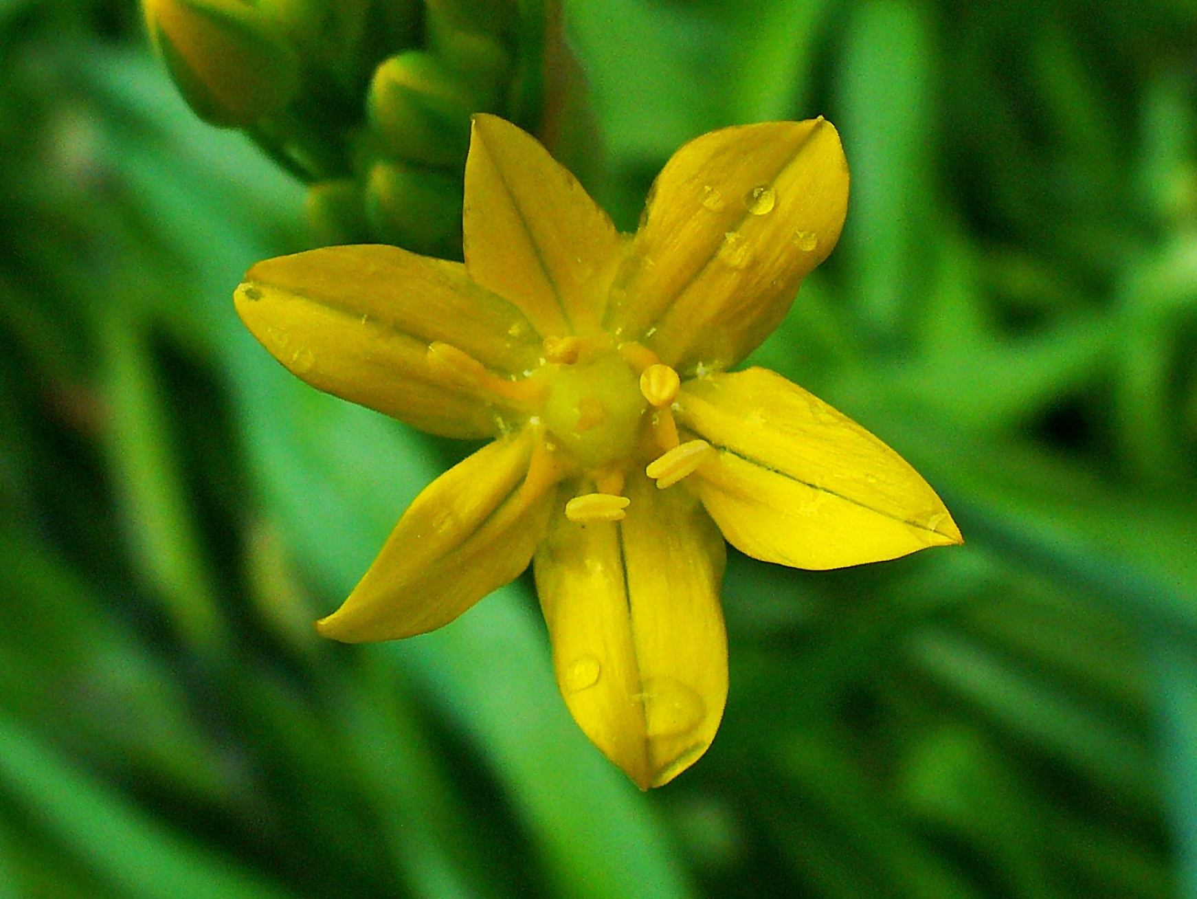 Allium moly, Alliaceae, Golden Garlic, Lily Leek, flower. Botanical Garden KIT, Karlsruhe, Germany.